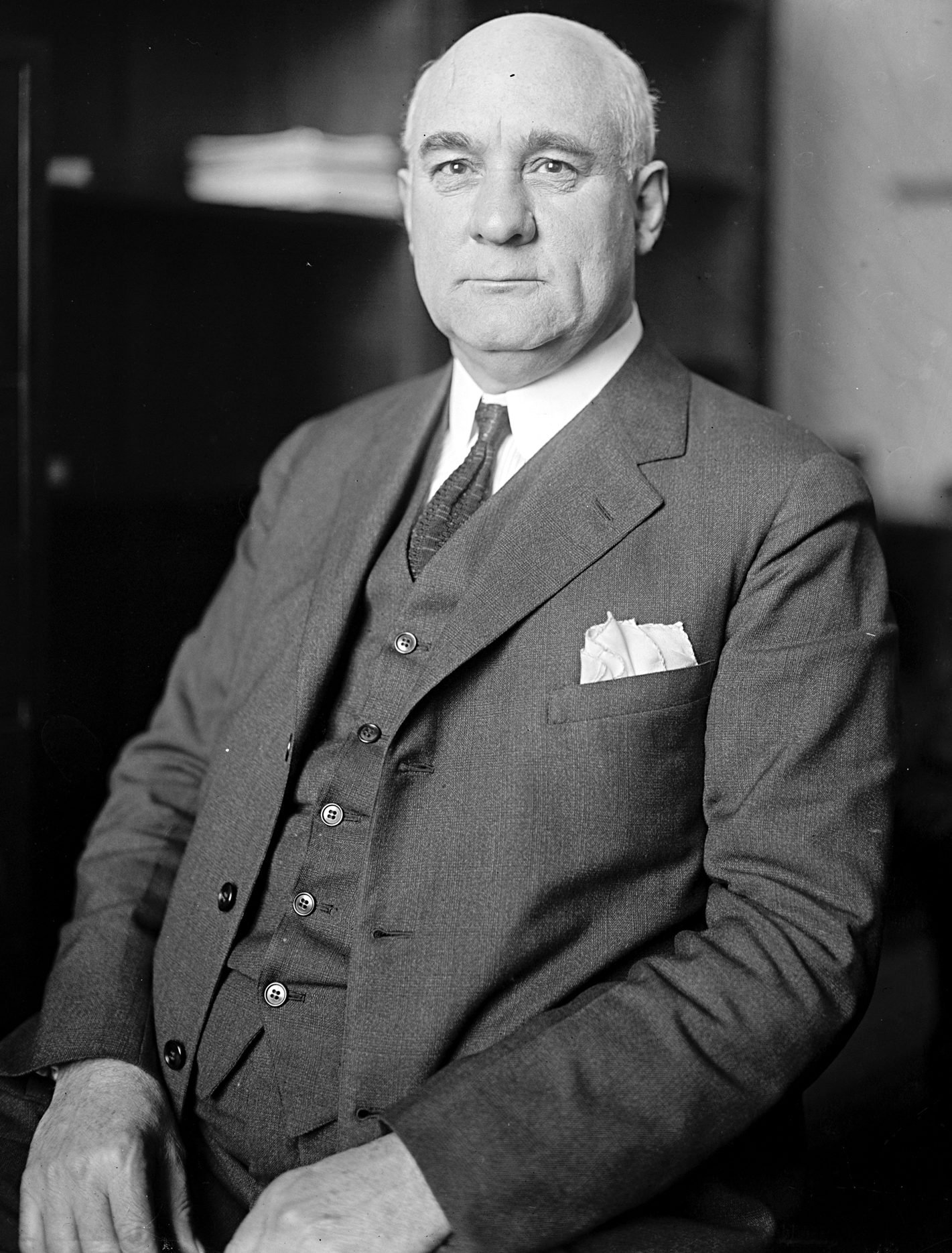 William Charles Salmon, US Representative from Tennessee